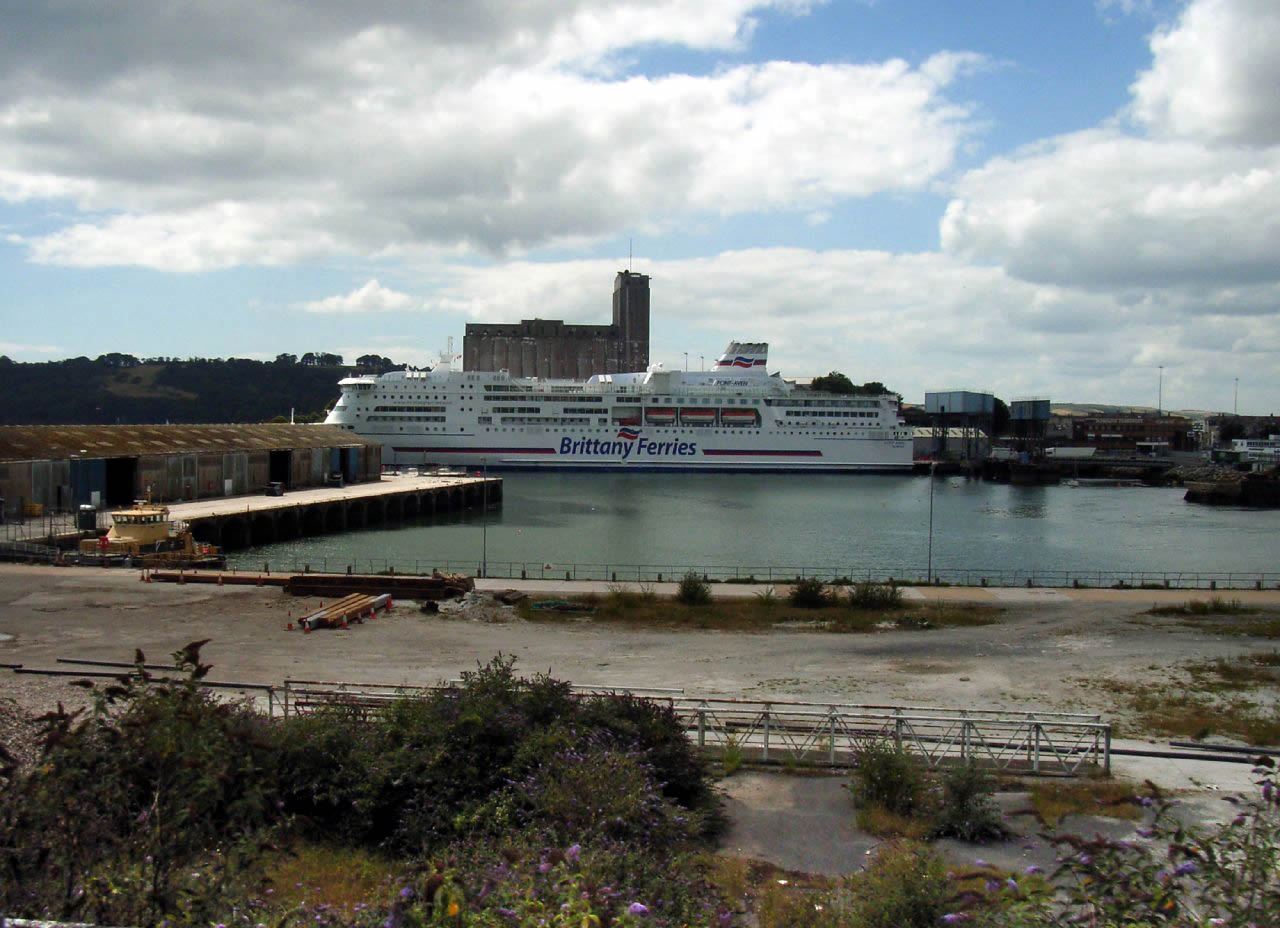 An open top ride around the edge of Millbay Docks in Plymouth for a few views inside this area, soon to be developed Pont Aven IMO Number: 9268708 MMSI Number: 228183600 Callsign: FNPN Length: 185 m Beam: 38 m Fly to this location (Requires Google Earth)